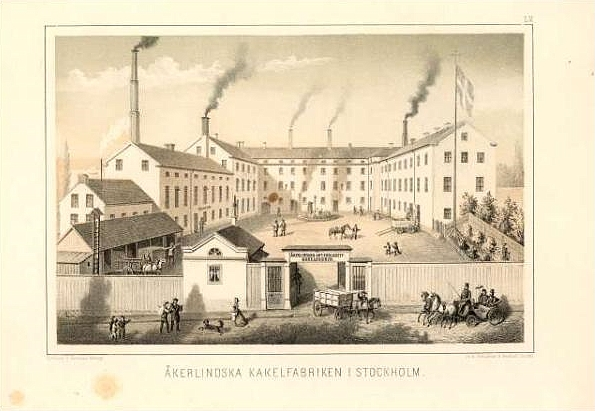 Åkerlind Tile Factory, Stockholm, Sweden.